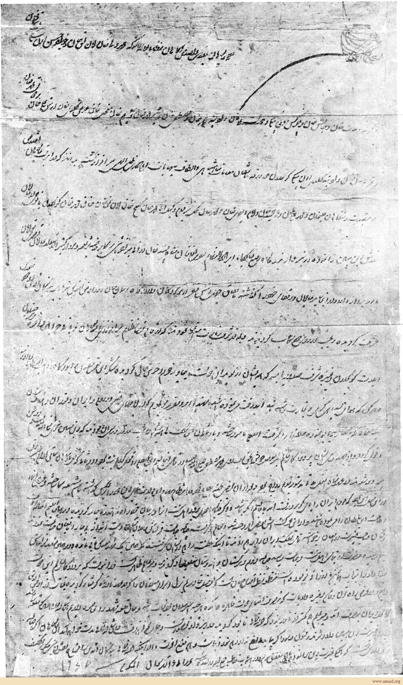 Farman by Ahmad Shah Durrani This early decree by Ahmad Khan (Shah) Durrani addresses a group of tribal leaders from the Kukalan in Khurasan who came to his court to seek confirmations (arqam) of royal support. Ahmad Shah uses the opportunity to stress the right to jihad and to criticise the wrongful pressure exercised by the Safavid rulers on the Sunni community (as in the placement of Qizilbash troops in Afghanistan). He expresses his hope to take possession of Iranian territory after the conquest of Mashhad. Remaining captives from the period of Nadir Shah in Mashhad are to be freed. The addressees are admonished to follow their religious duties and not to intervene in any military moves.